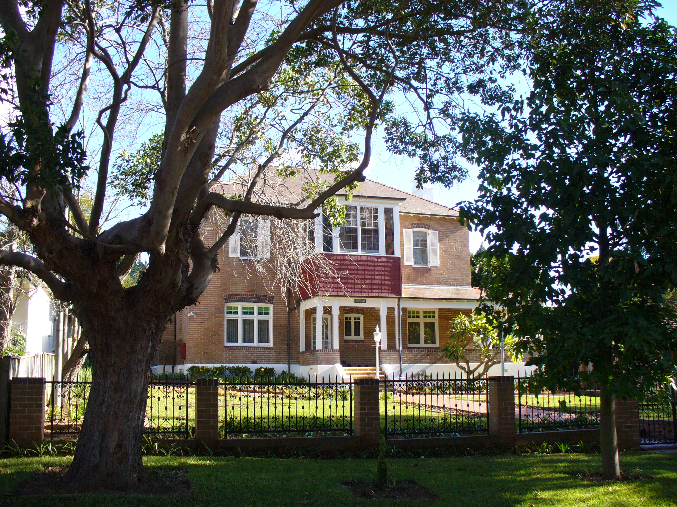 "Ripley" mansion, in Eastwood, NSW, Australia (c.1888)